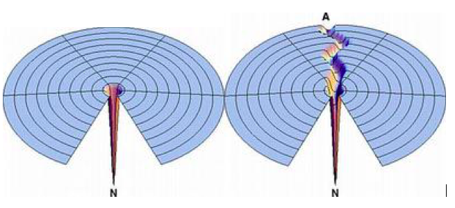 A smooth golf-course pathway versus a rugged gold-course pathway to show the randomness a protein has to go through before reaching its native state. This will prove to be challenging since all intermediate configurations are on a flat playing field, although the rugged model suggested there can be one tunnel that helps protein get to its native structure easier.